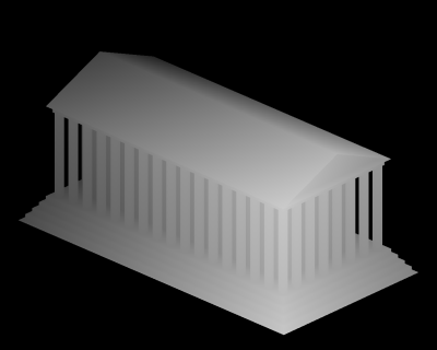 praetor alpha. pass one, shadow map